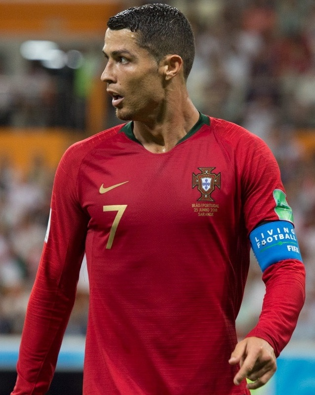 Iran-Portugal match, 2018 FIFA World Cup Group B